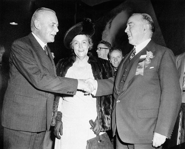 Rt. Hon. W.L. Mackenzie King congragulating Hon. Louis S. St. Laurent and Mrs St. Laurent at the National Liberal Convention